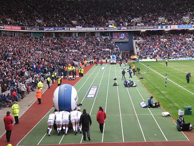 Environmentally acceptable motorsport A 4x4 race. The idea is that two packs have to push the tonka toy down the track. First to half way wins. A half time advertising promotion. Also being advertised is Baxter's of Fochabers - notice that due to proximity with a drink advertisement, there is an implication that soup should be "Enjoyed responsibly".